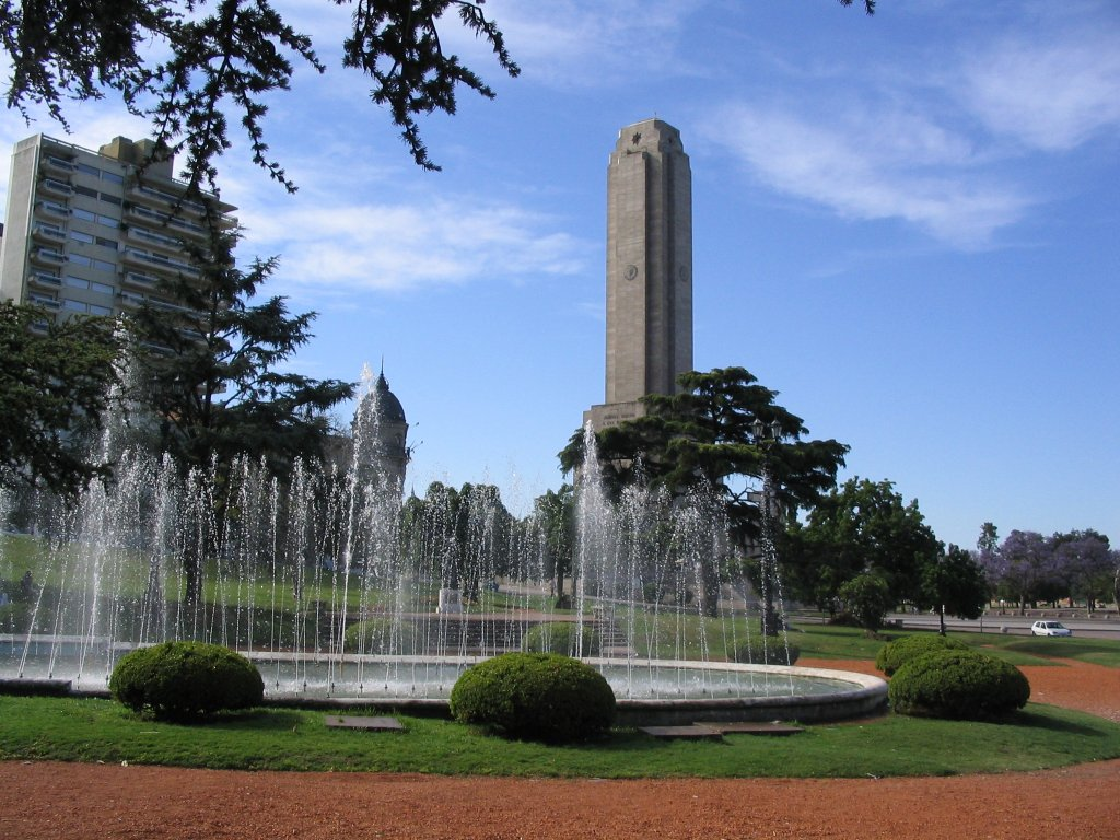 Monumento Nacional a la Bandera (National Flag Memorial) in Rosario, Argentina. Source: photographed by myself Photographer: Zuirdj Licence: Public Domain